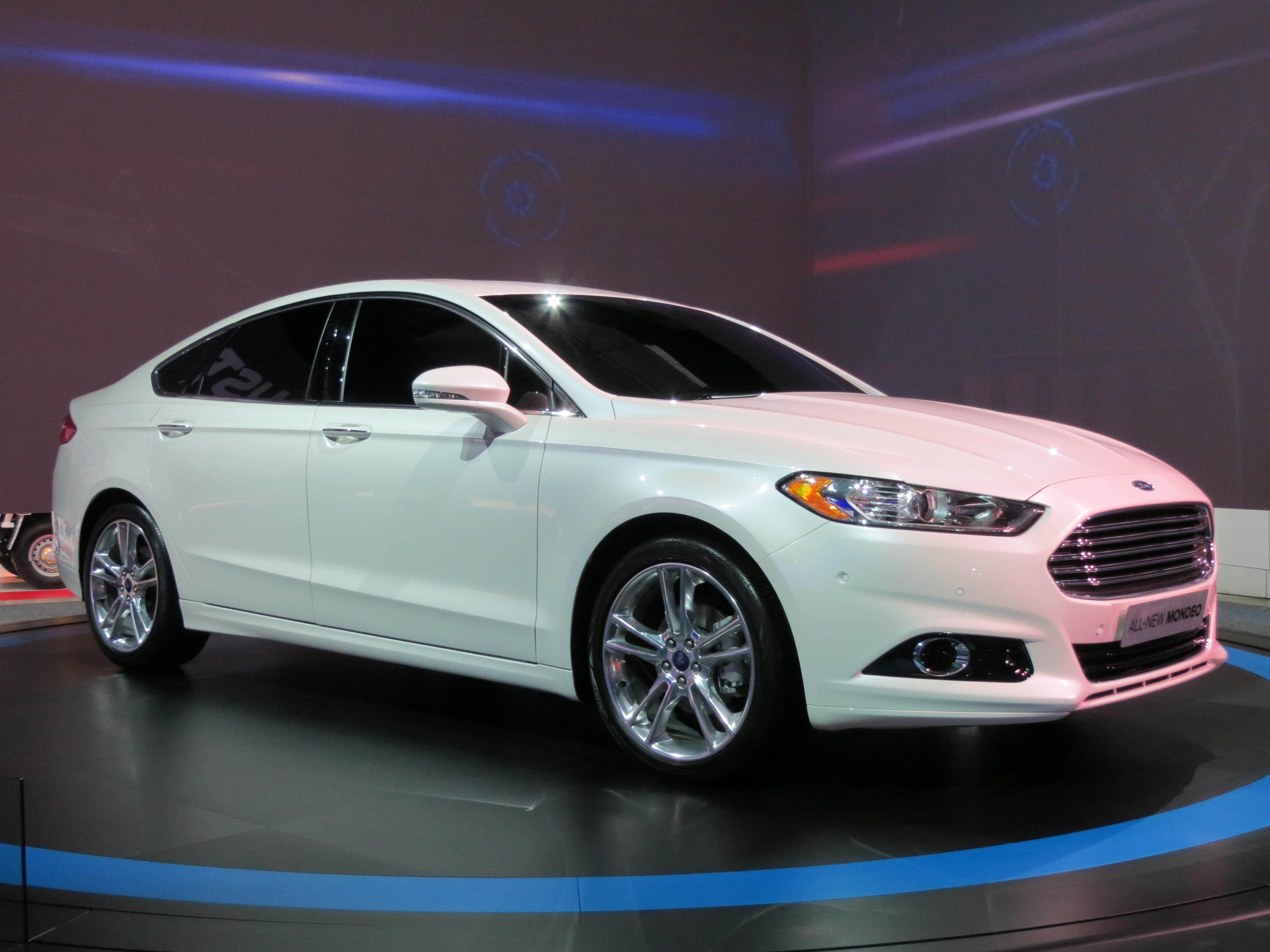 2012 Ford Mondeo Titanium sedan. This is a pre-production model, the production model made its Australian sales debut in 2015. Photographed at the 2012 Australian International Motor Show, Sydney, New South Wales, Australia.